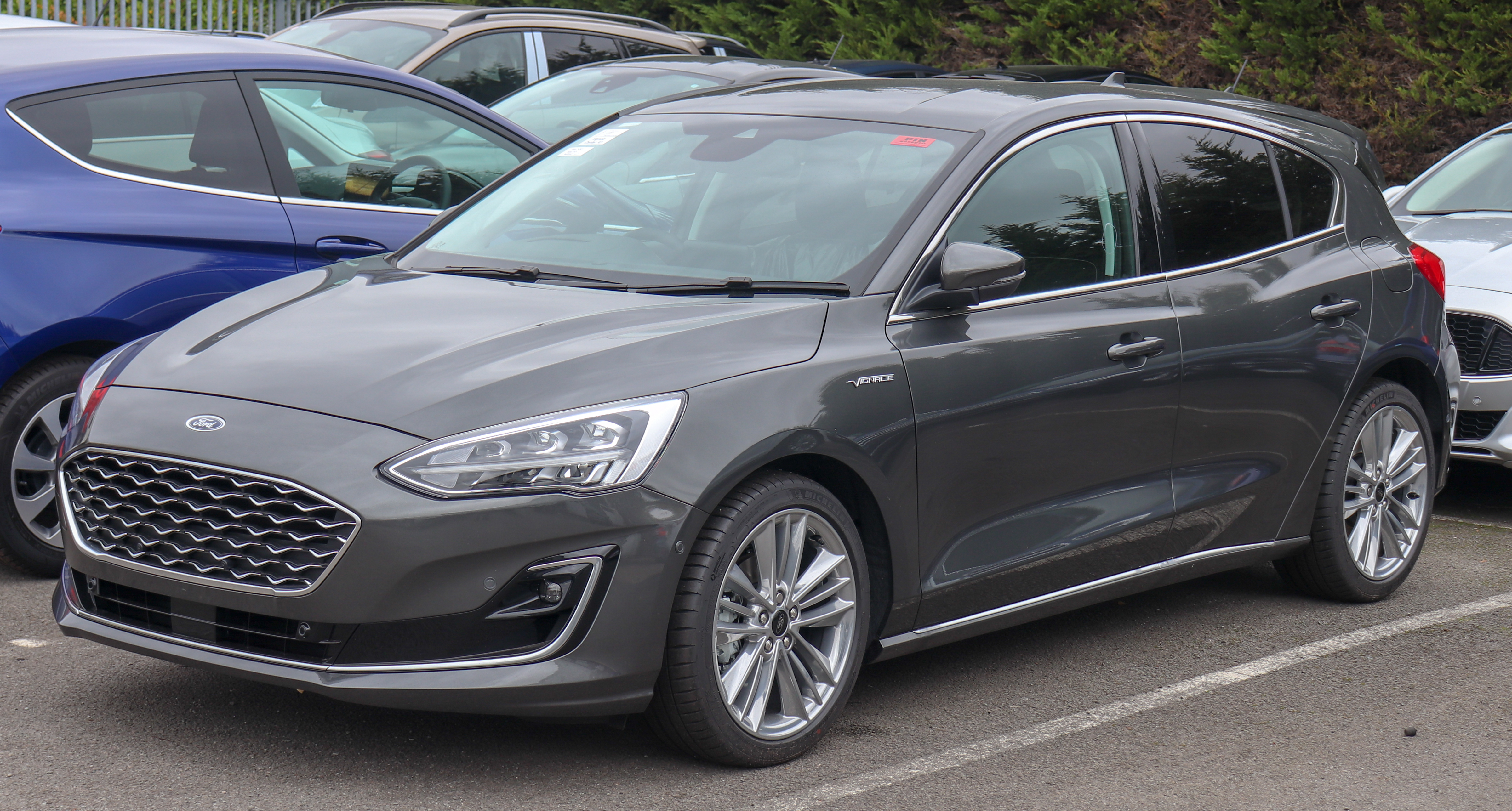 2018 Ford Focus Vignale Front Taken in Lemaington Spa